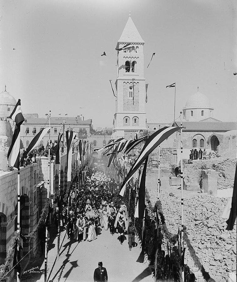 The German emperor Wilhelm II. and his wife empress Auguste Viktoria (under the umbrella) lead the royal cortege past the German Lutheran Church of the Redeemer in Jerusalem, Palestine, which they had come to Jerusalem to dedicate on 31 October 1898.